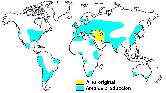 Wheat world regions in spanish